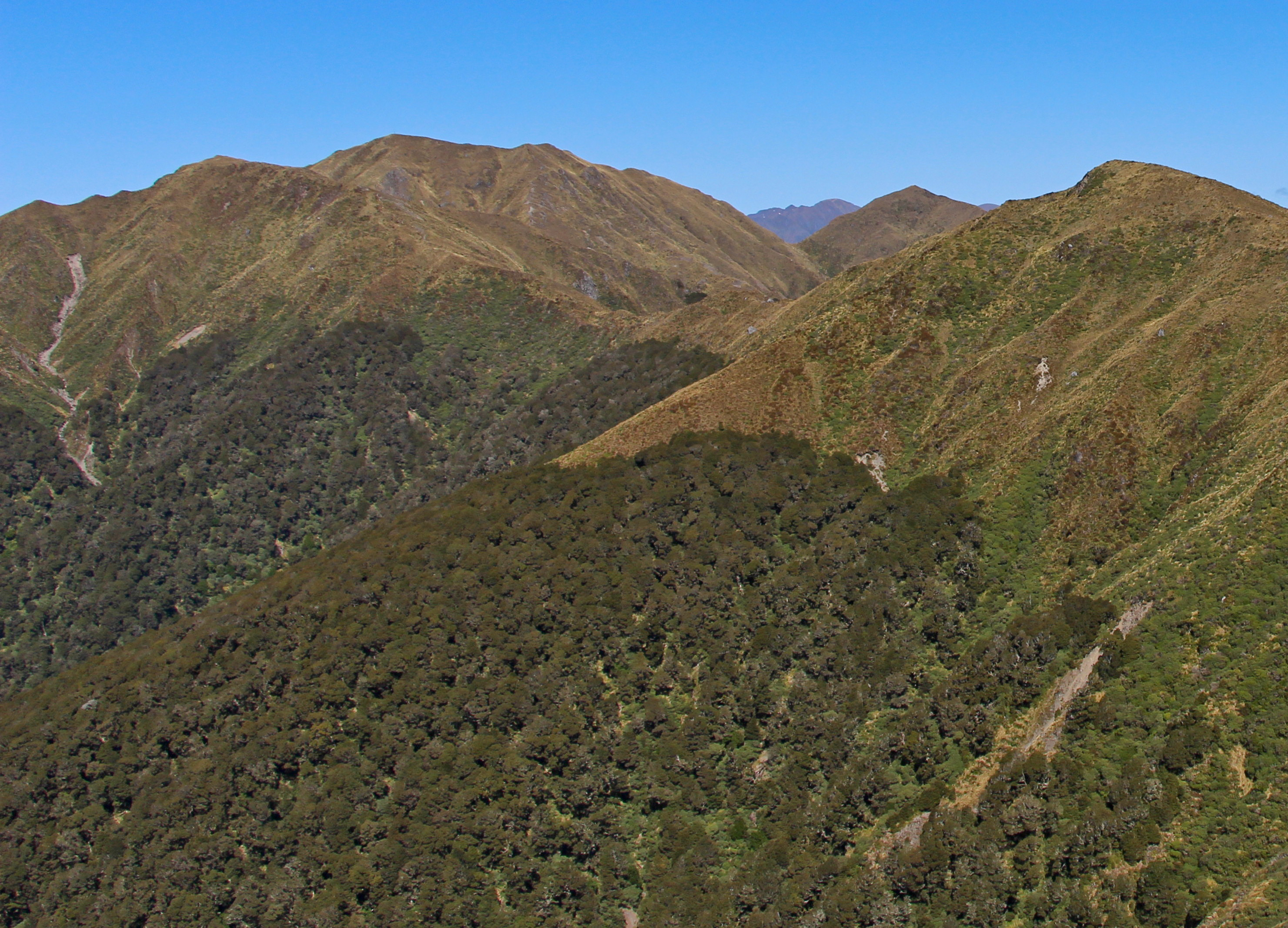 Ridge from Mt Holdsworth to Mt Jumbo. Mt Holdsworth - Jumbo Circuit, Tararua Range, New Zealand – Detail